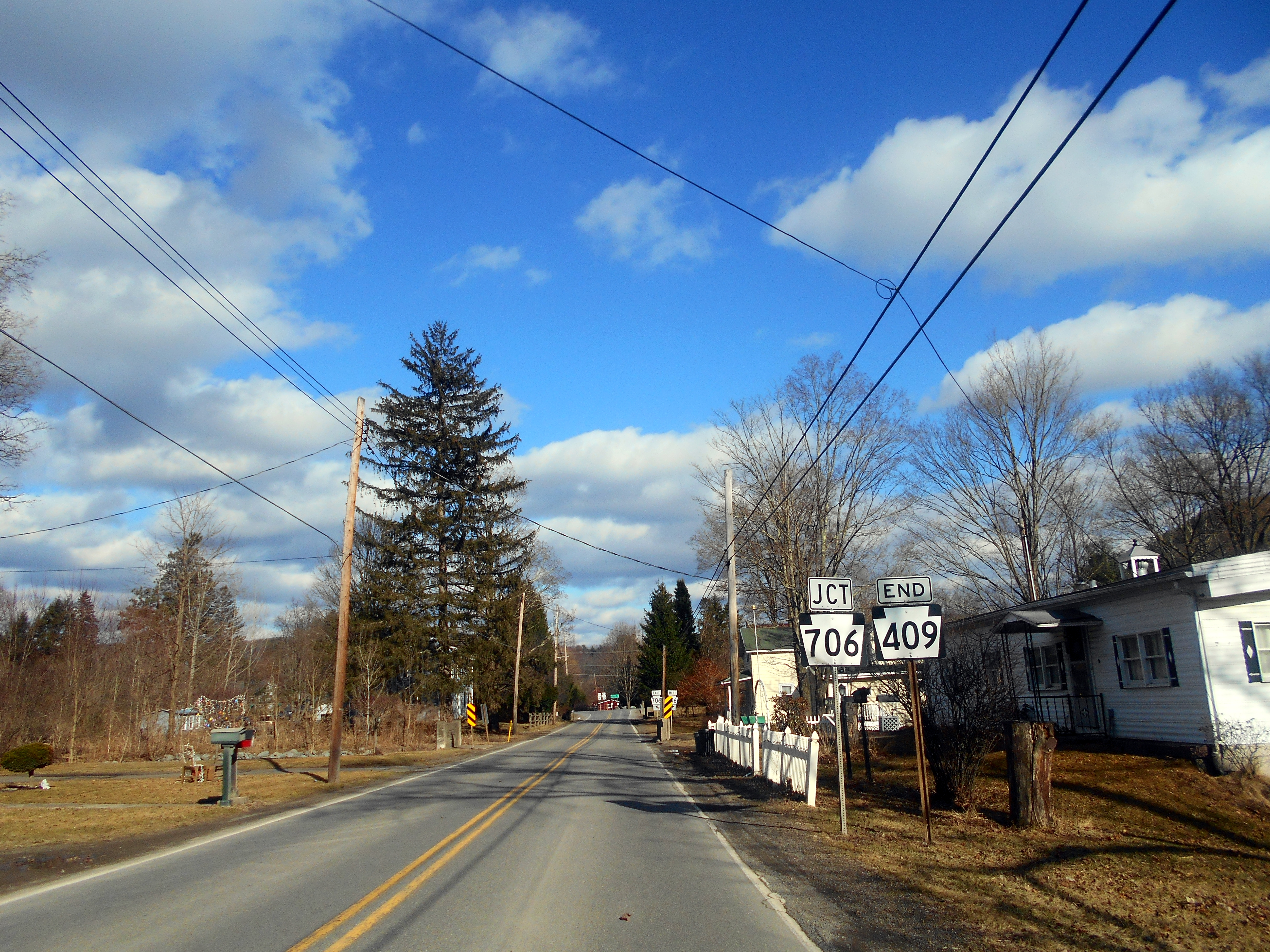 Pennsylvania Route 409 eastbound approaching the Route 706 terminus in Camptown, Pennsylvania.